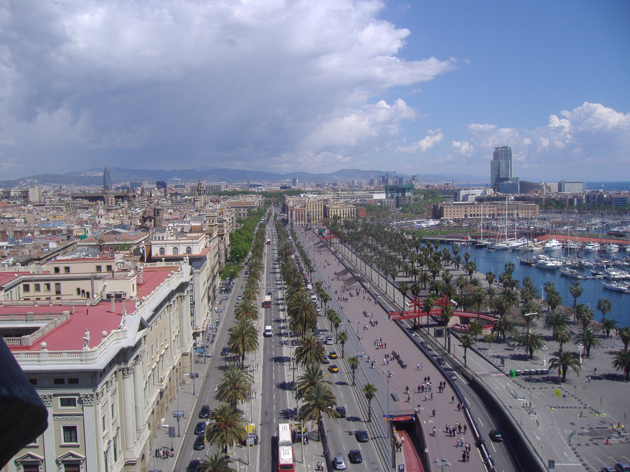 The view eastwards along the Passeig de Colom